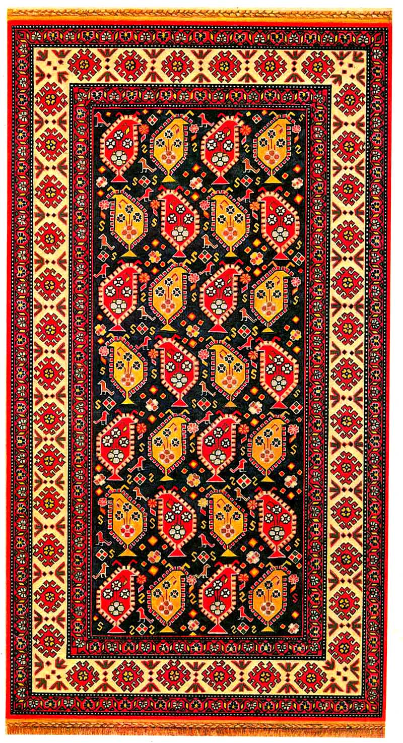 Aran rug, Karabakh school, XIX c.